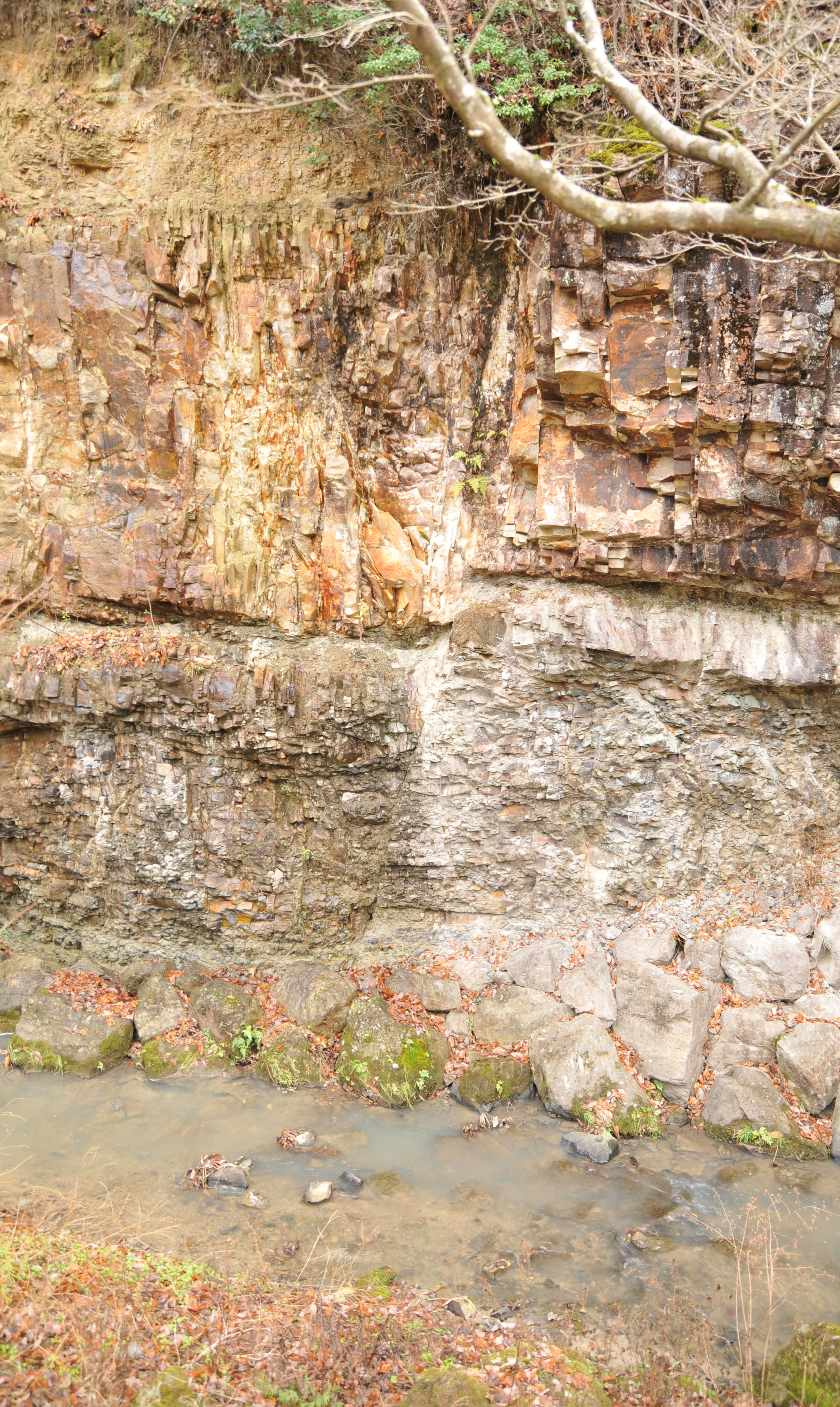 Fault of Kōbe-Sōgun in Miki, Hyogo